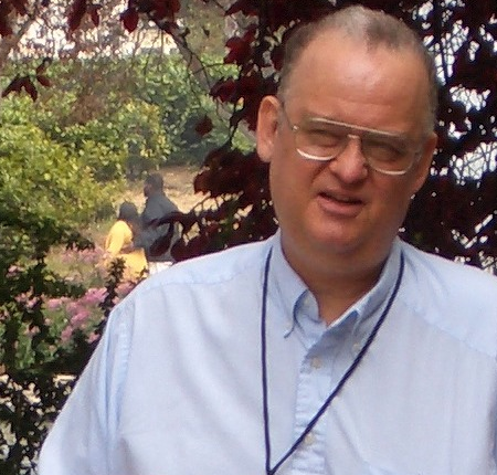 Ralph Merkle at the Singularity Summit 2007